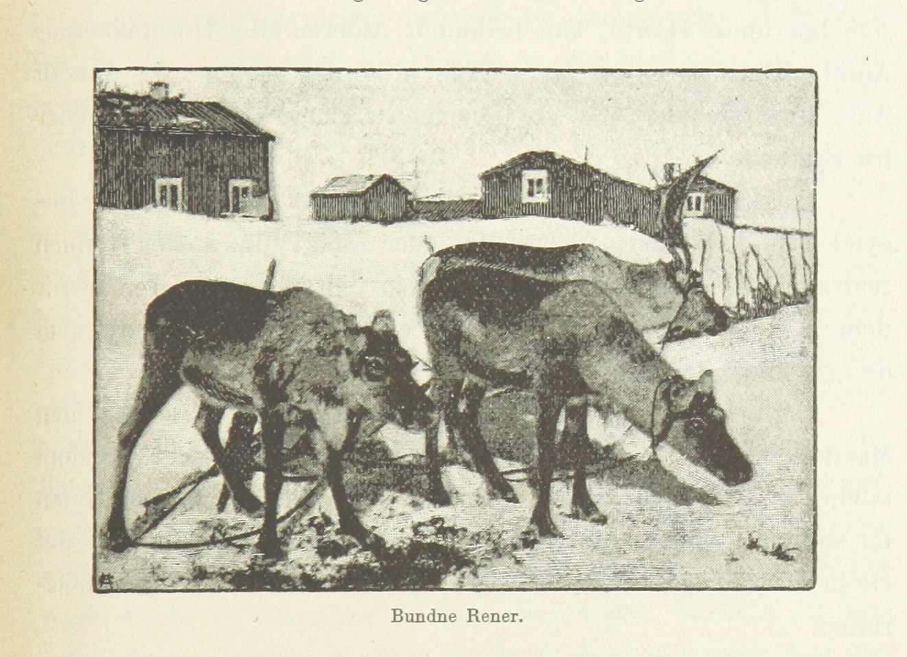 Image taken from: Title: "Under Nordlysets Straaler. Skildringer fra Lappernes Land" Author: TROMHOLT, Sophus. Shelfmark: "British Library HMNTS 10280.eee.13." Page: 181 Place of Publishing: Kjøbenhavn Date of Publishing: 1885 Issuance: monographic Identifier: 003678968 Explore: Find this item in the British Library catalogue, 'Explore'. Download the PDF for this book (volume: 0) Image found on book scan 181 (NB not necessarily a page number) Download the OCR-derived text for this volume: (plain text) or (json) Click here to see all the illustrations in this book and click here to browse other illustrations published in books in the same year. Order a higher quality version from here.